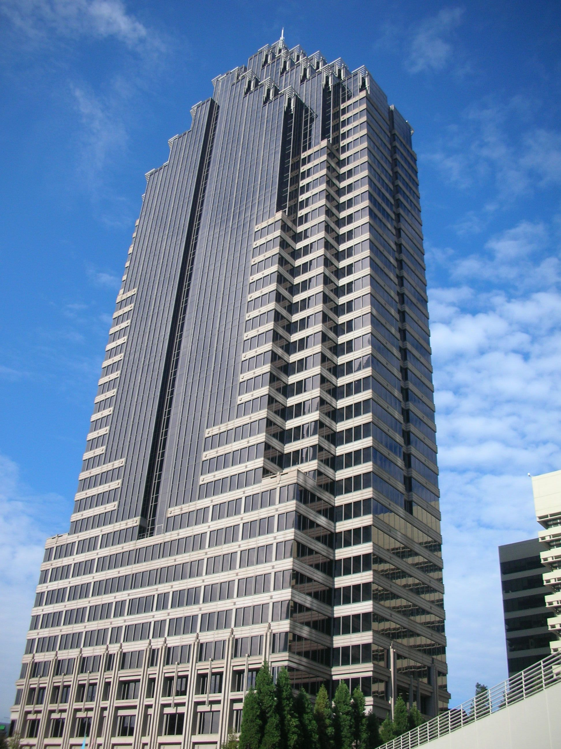 Promenade II, the seventh-tallest building in Atlanta.